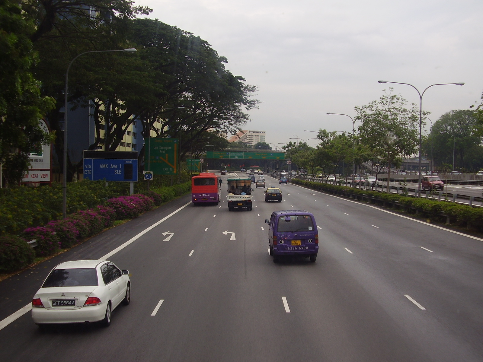 Jalan Toa Payoh towards airport, after Kim Keat Link.